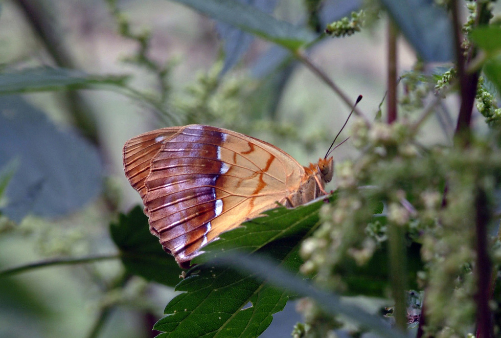 Magnificent butterfly. In Hungary, near Farm Lator.